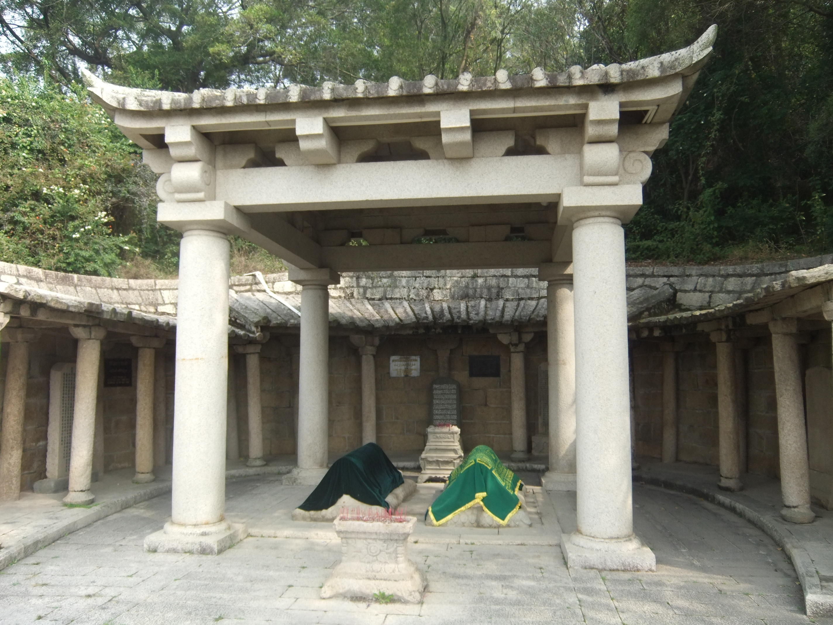 The tombs of the "Two Worthies", two early Islamic missionaries that supposedly came to Quanzhou to propagate Islam in the 7th century. They are the centerpiece of Lingshan Islamic Cemetery (Lingshan Park) in Quanzhou. There are a number of stelae next to them, erected at various times from the Yuan Dynasty to the present day.